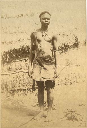 Portrait of a Madi man